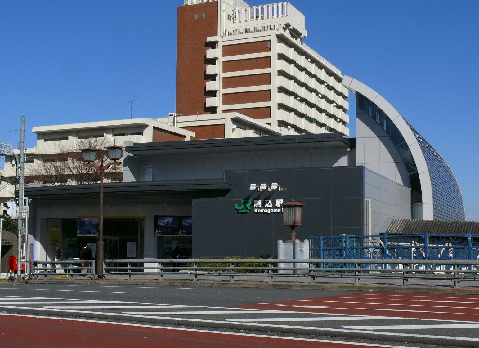 East Japan Railway Komagome-Station-North-exit(Japan,Tokyo). It takes a picture of the station North entrance of JR Yamanote Line Komagome Station from the public road. JR山手線駒込駅の北口を公道から撮影。 駅の所在地は東京都豊島区駒込。